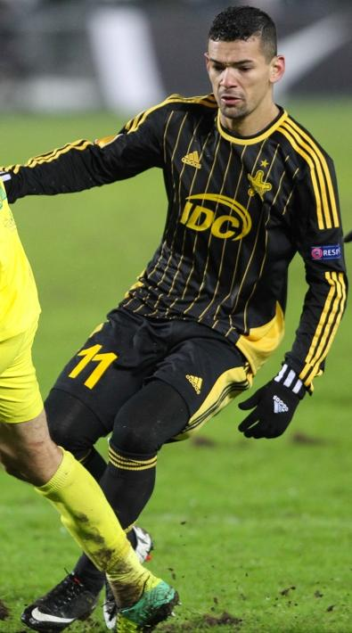 Richardinho with FC Sheriff Tiraspol in 2013.